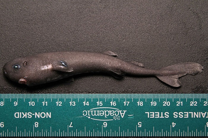 Pocket shark (Mollisquama parini) caught in the Gulf of Mexico.